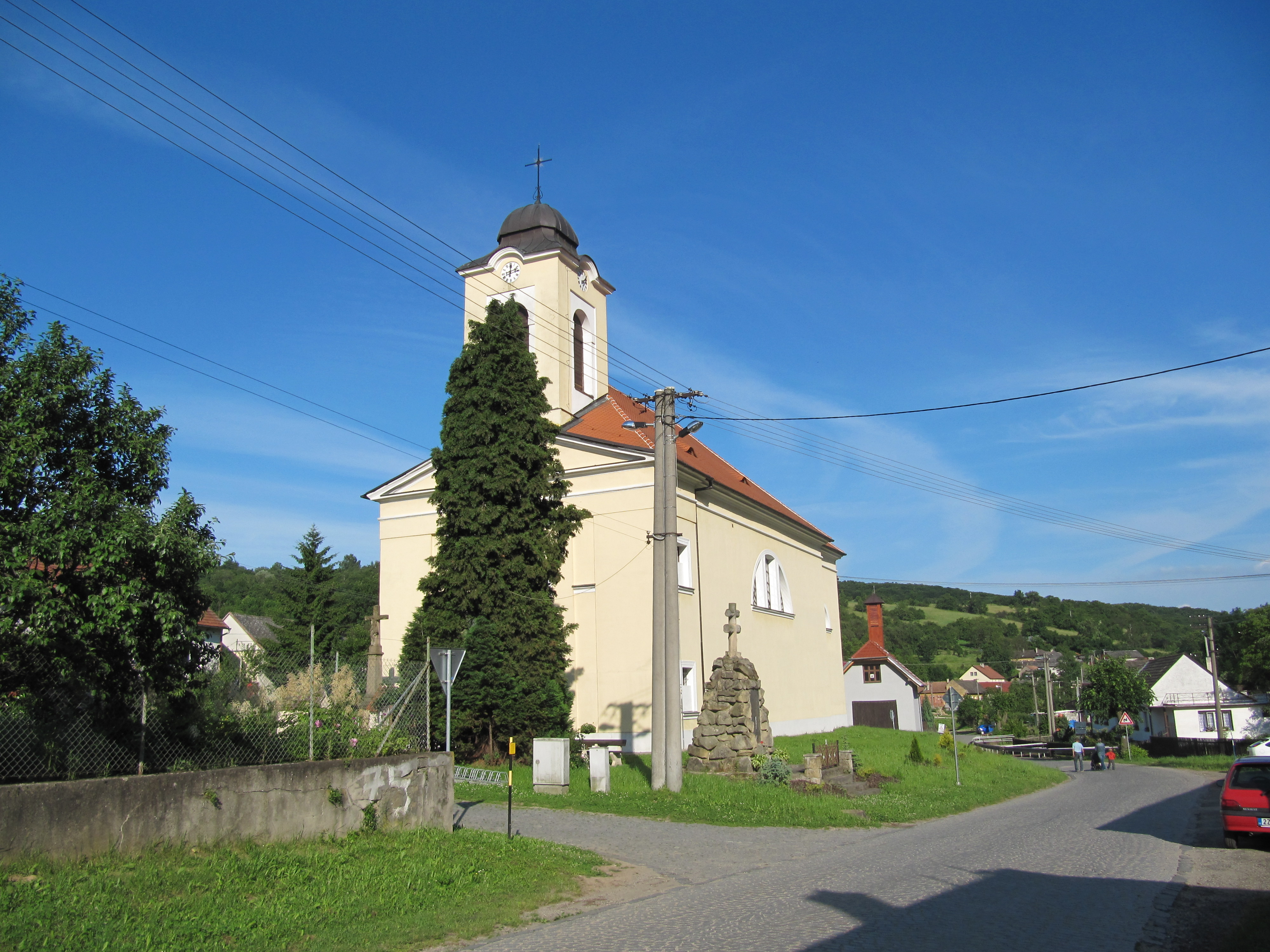 Jankovice in Uherské Hradiště District, Czech Republic. Church from 1840.